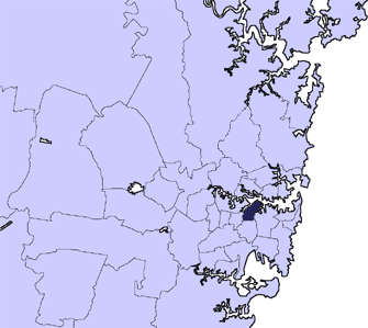 Locator Map Leichhardt lga sydney.png Based on Image:Ku-ring-gai sydney.png by User:Randwicked.